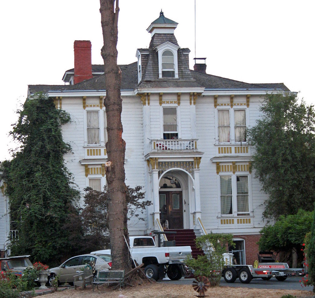 National Register of Historic Places listings in Contra Costa County, California. Bernardo Fernandez House, 100 Tennent Ave, Pinole, California, USA. Photographed 2008-09-14 from the grounds to the north of the house near the intersection of Tennent and Railroad Aves.